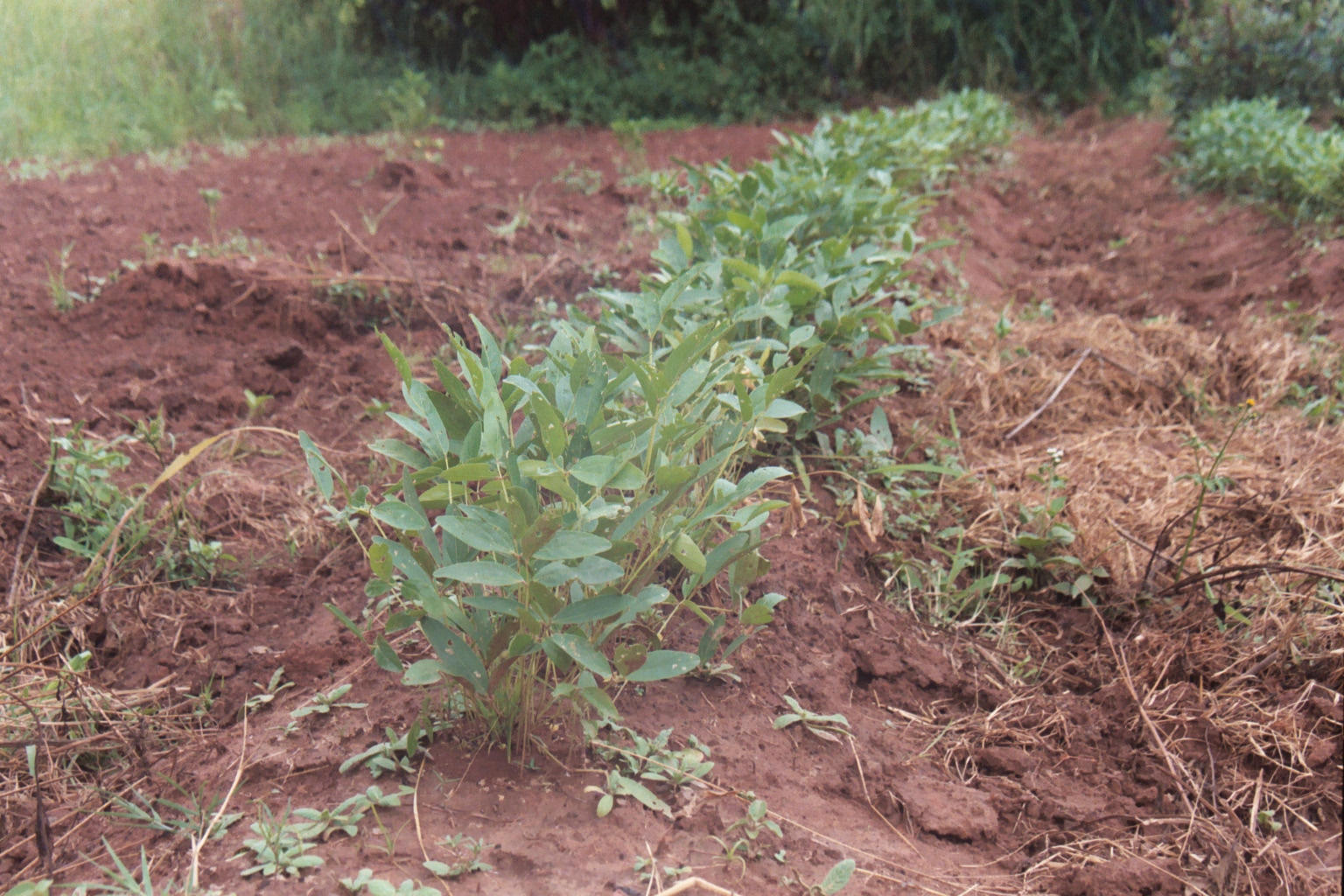 View of 3-month old bambara nut (Vigna subterranea) in field, Kelongwa Village, Kasempa District, Northwestern Province, Zambia.